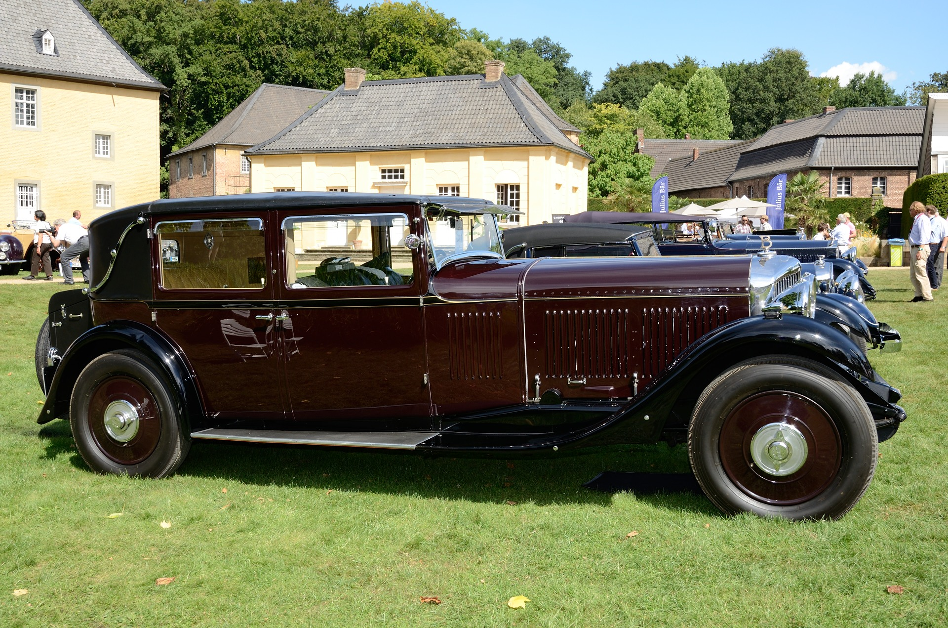 2013 Classic Days Schloss Dyck - Jüchen Bentley 8-litre 4-light sports saloon Weymann fabric by H J Mulliner 1930 This is the first production 8-litre Chassis YF5001 13' (156") wheelbase Engine YF5001 Reg GK 672 delivered October 1930 to star of stage and screen Jack Buchanan Source of data—Vintage Bentleys